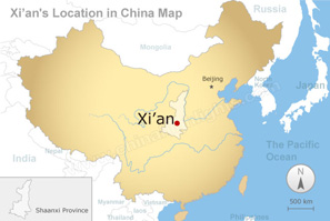 Map of Xi'an